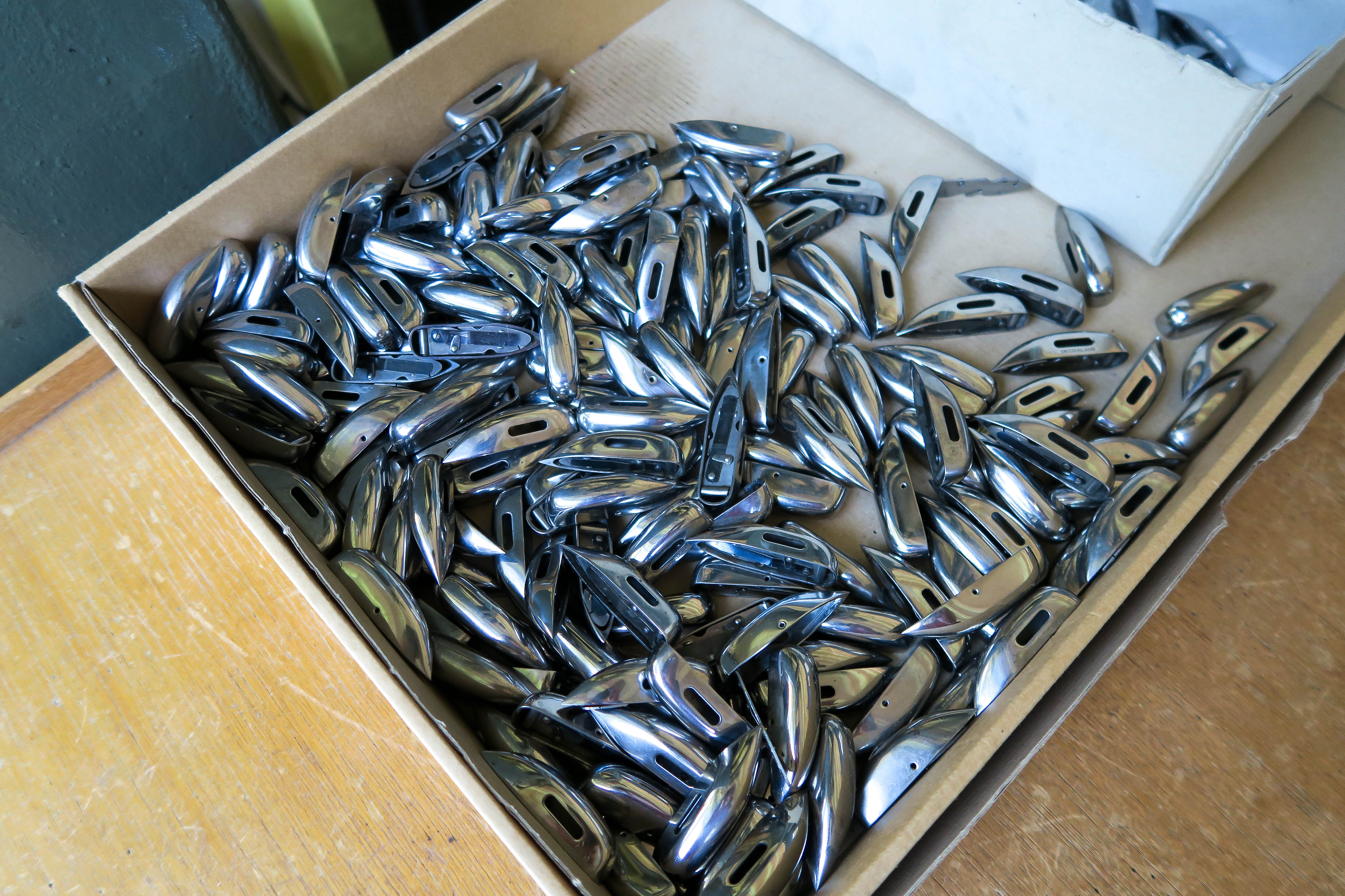 Schiffli bobbin thread holders, also known as schiffli shuttles. Used in early 20th century schiffli embroidery machines. This holds the backside bobbin thread, or yarn, that forms the lock stitch.